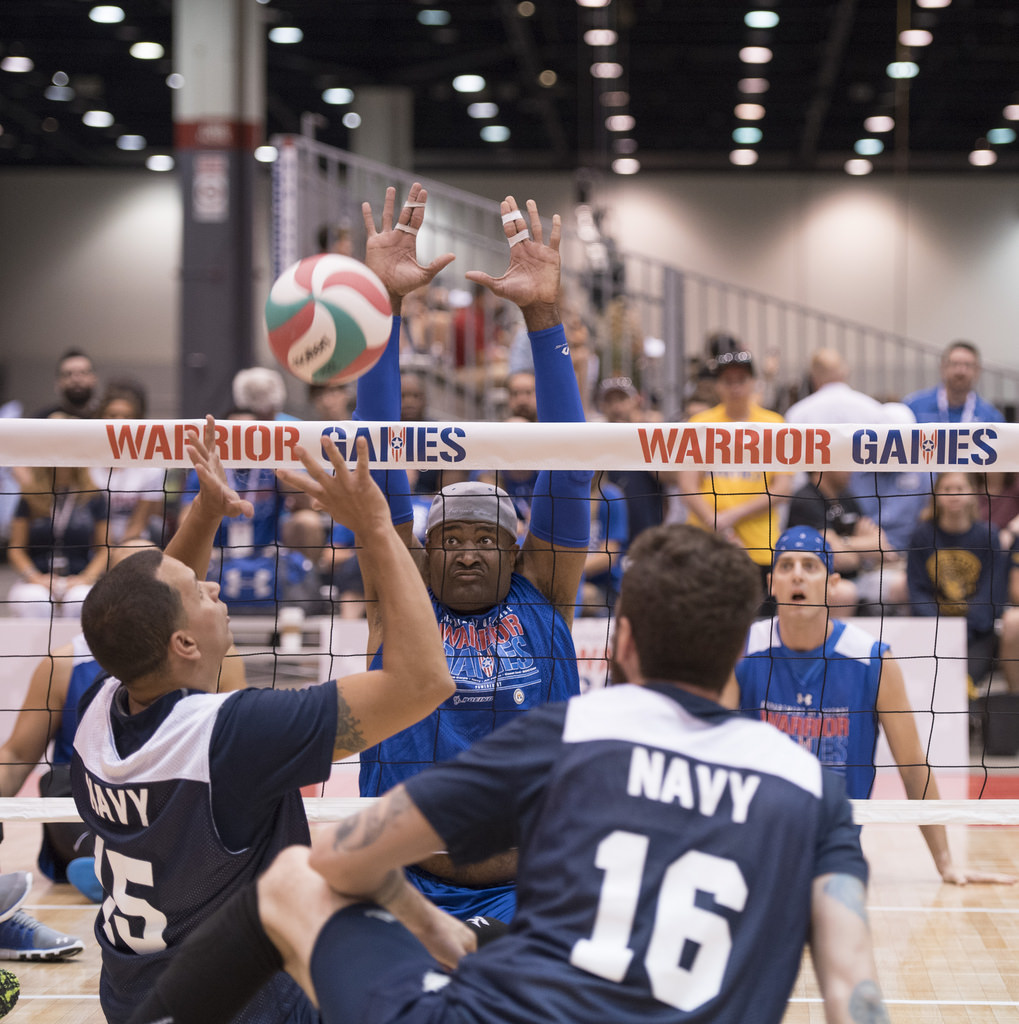 Sitting volleyball at the 2017 Warrior Games (preliminaries)